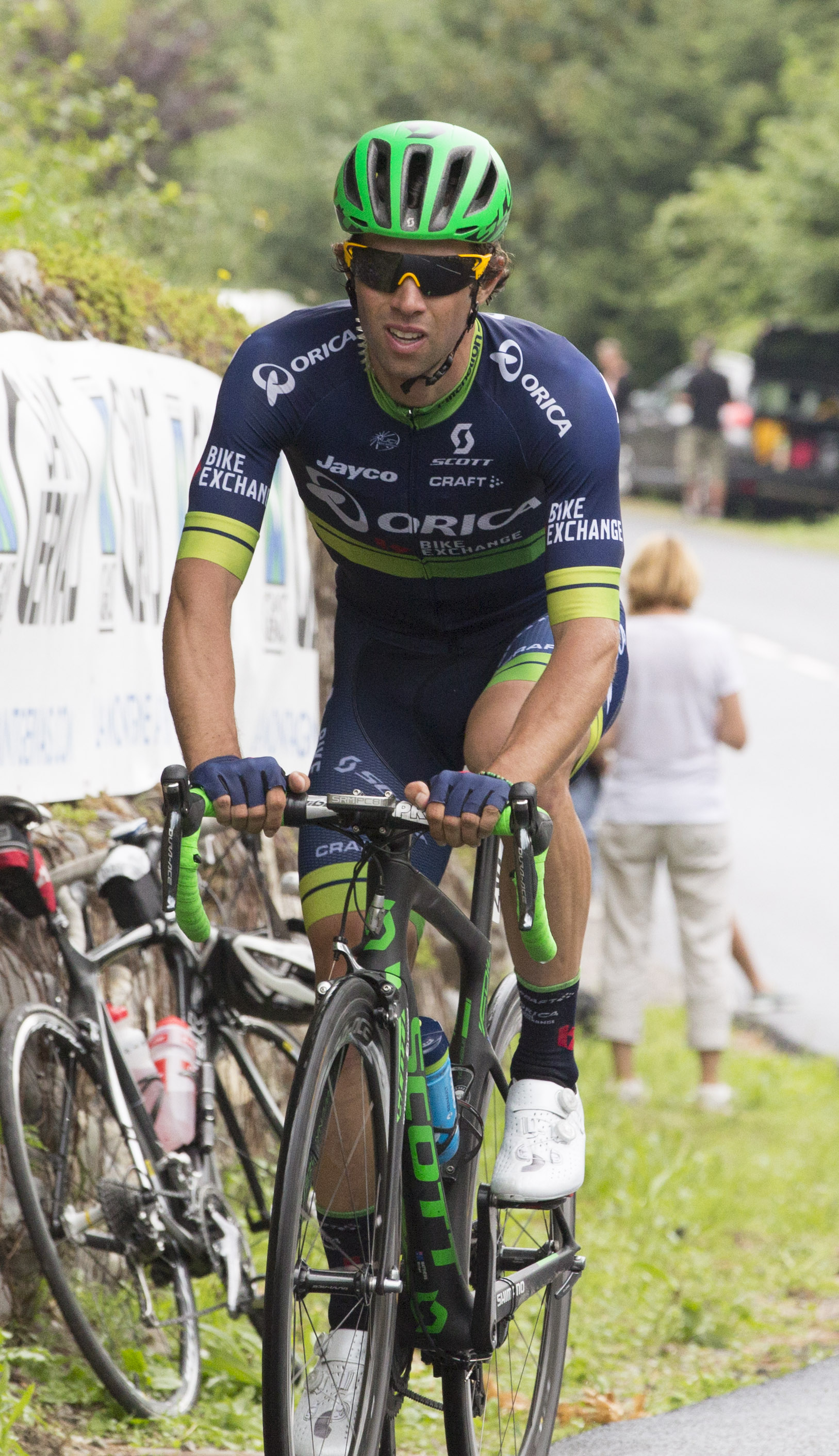 Stage 19 - Albertville to Saint-Gervais Mont Blan